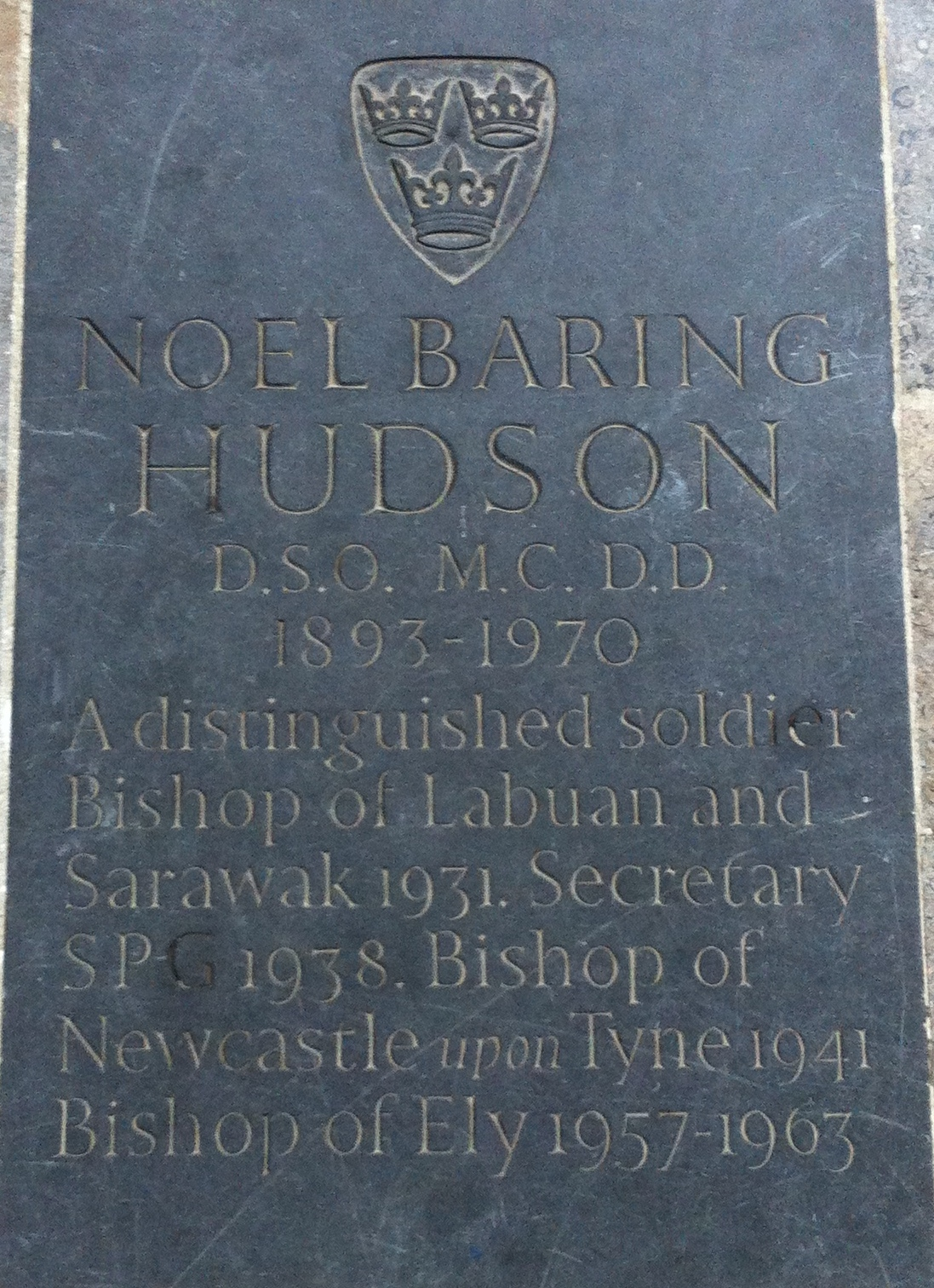 Noel Baring Hudson D.S.O. M.C. D.D. 1893 - 1970. A distinguished soldier, Bishop of Labuan and Sarawak 1931. Secretary SPC 1938. Bishop of Newcastle upon Tyne 1941. Bishop of Ely 1957 - 1963.